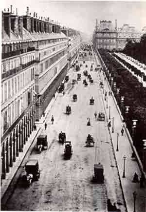 Rue de Rivoli, Paris, France